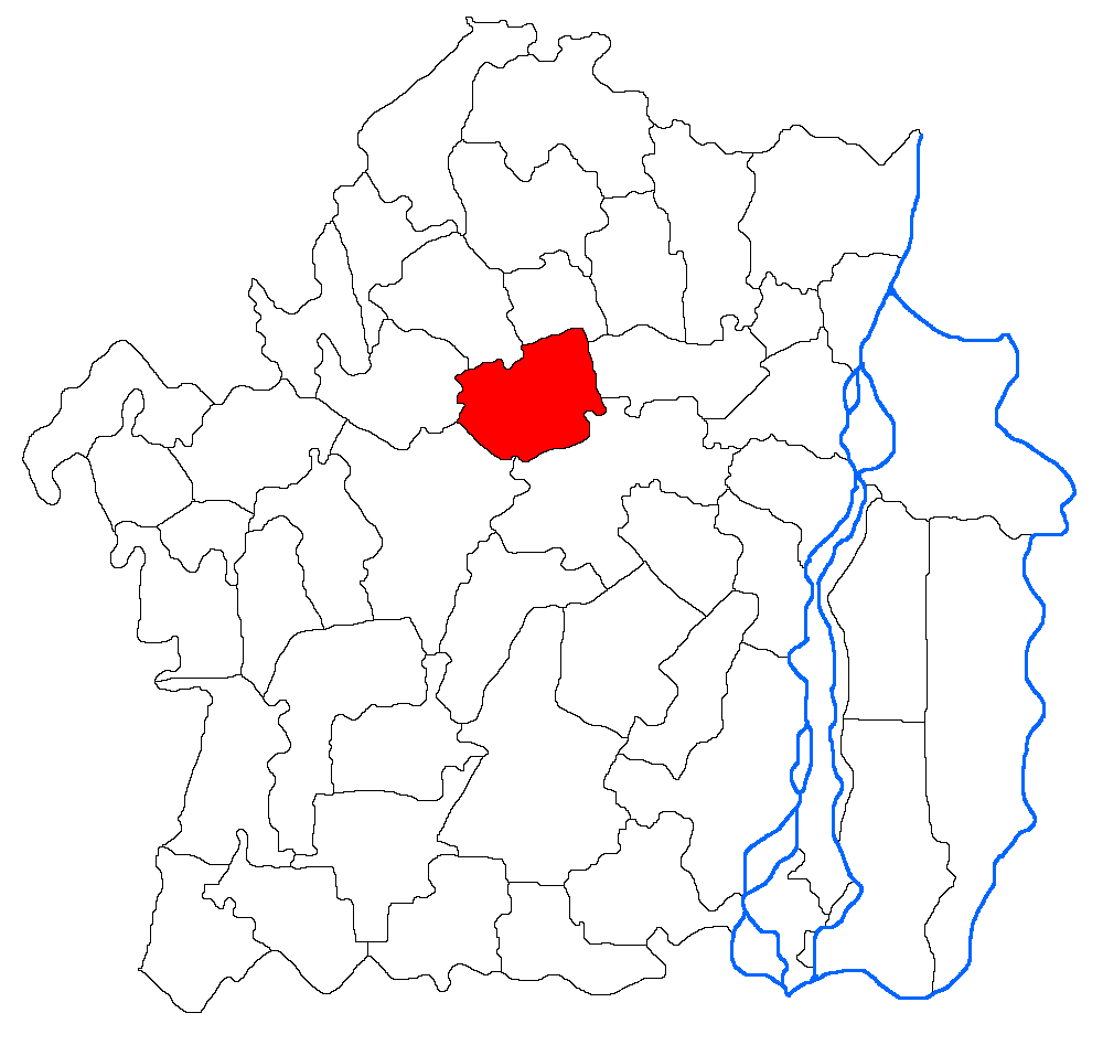 Limits of the commune of Movila Mirerii in Brăila County, Romania